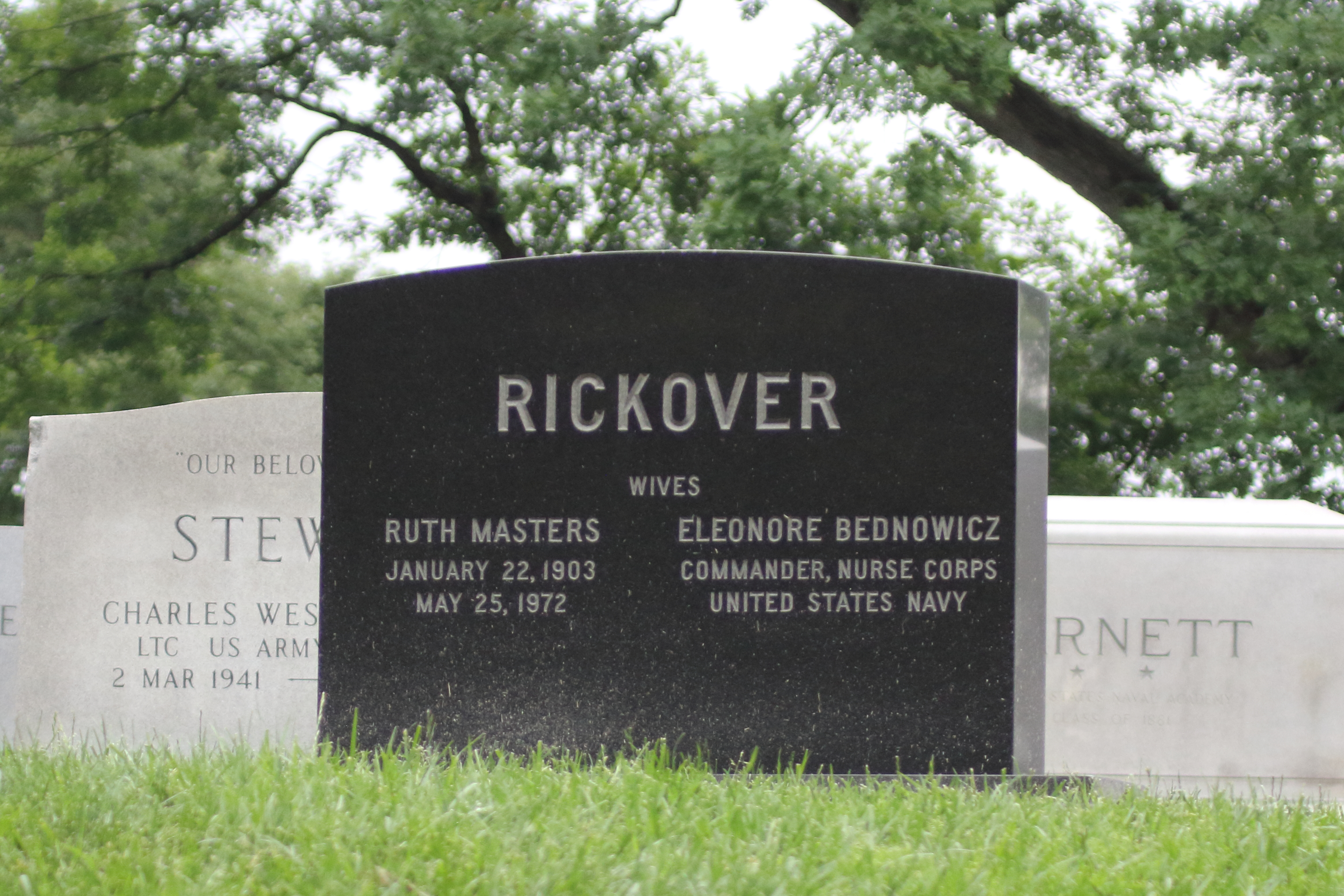 Headstone of Admiral Hyman G. Rickover, Arlington National Cemetery, Memorial Day, 2017